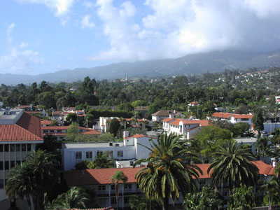 Santa Barbara from Courthouse tower Photograph taken from the top of the Santa Barbara County Courthouse, March 20, 2005, by Antandrus, looking west-northwest towards the Mission and San Marcos Pass, showing the Upper East Side of the town.